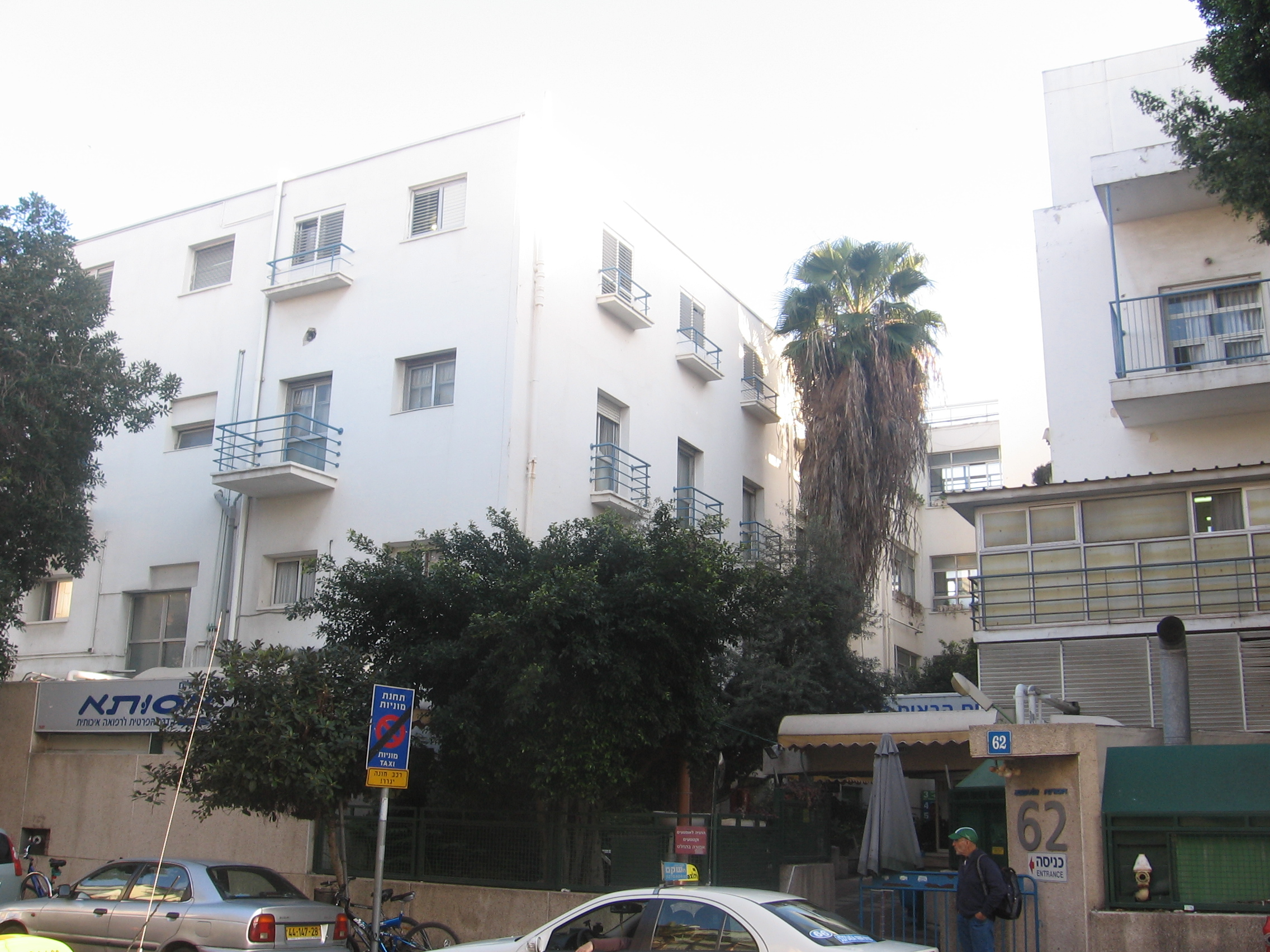 Old building of the Assuta hospital in Tel Aviv in 62 Jabotinsky Street in 2009.